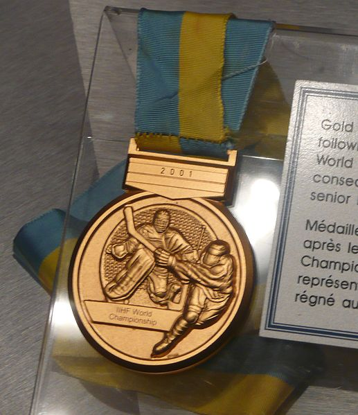 The gold medal awarded to Petr Čajánek at the en:2001 Men's World Ice Hockey Championships. Medal was on display at the Hockey Hall of Fame.